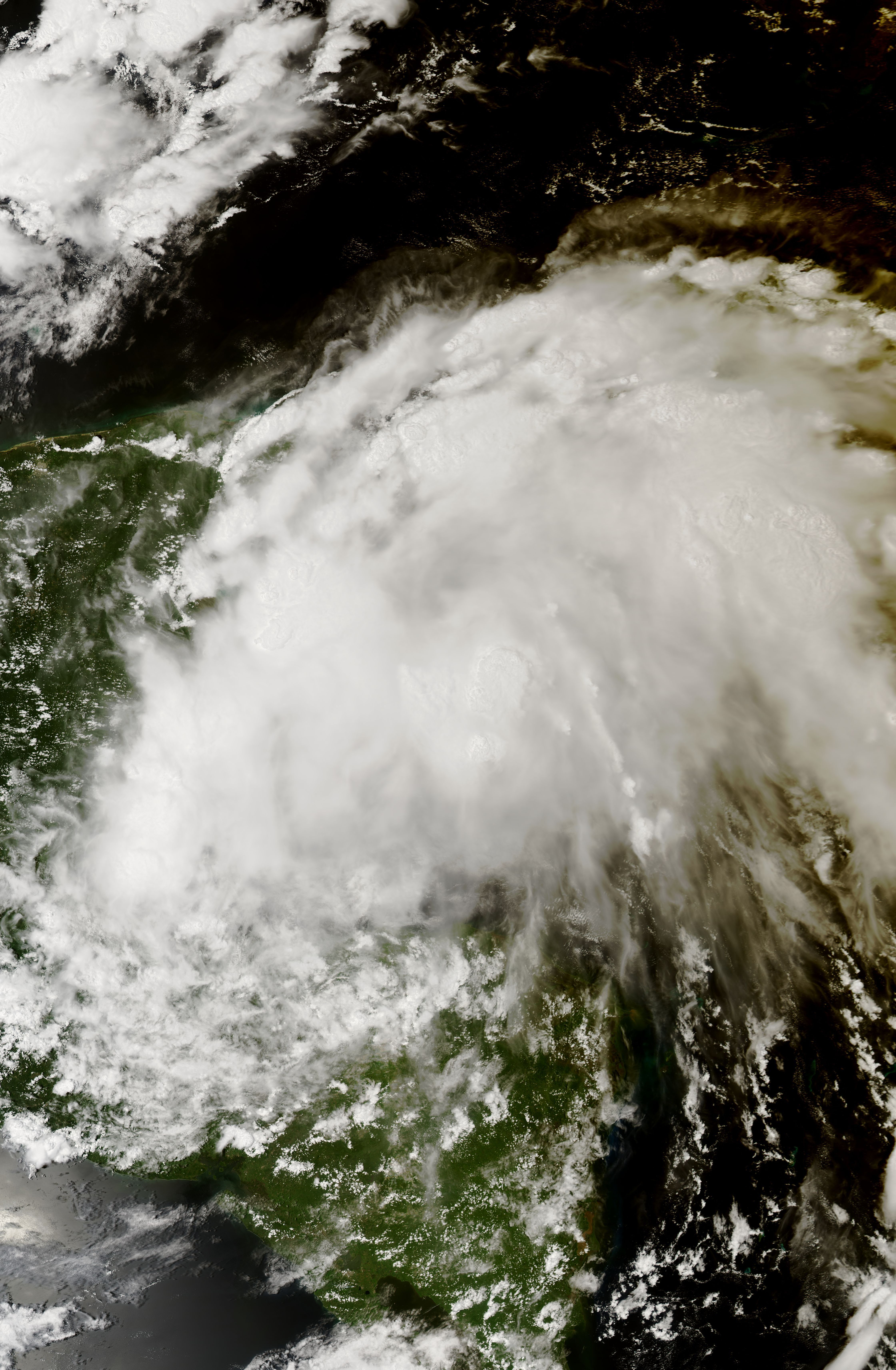 The tropical wave that would later regenerate into Hurricane Harvey, seen passing through the shadow of the August 21, 2017 total solar eclipse, over the Gulf of Honduras.